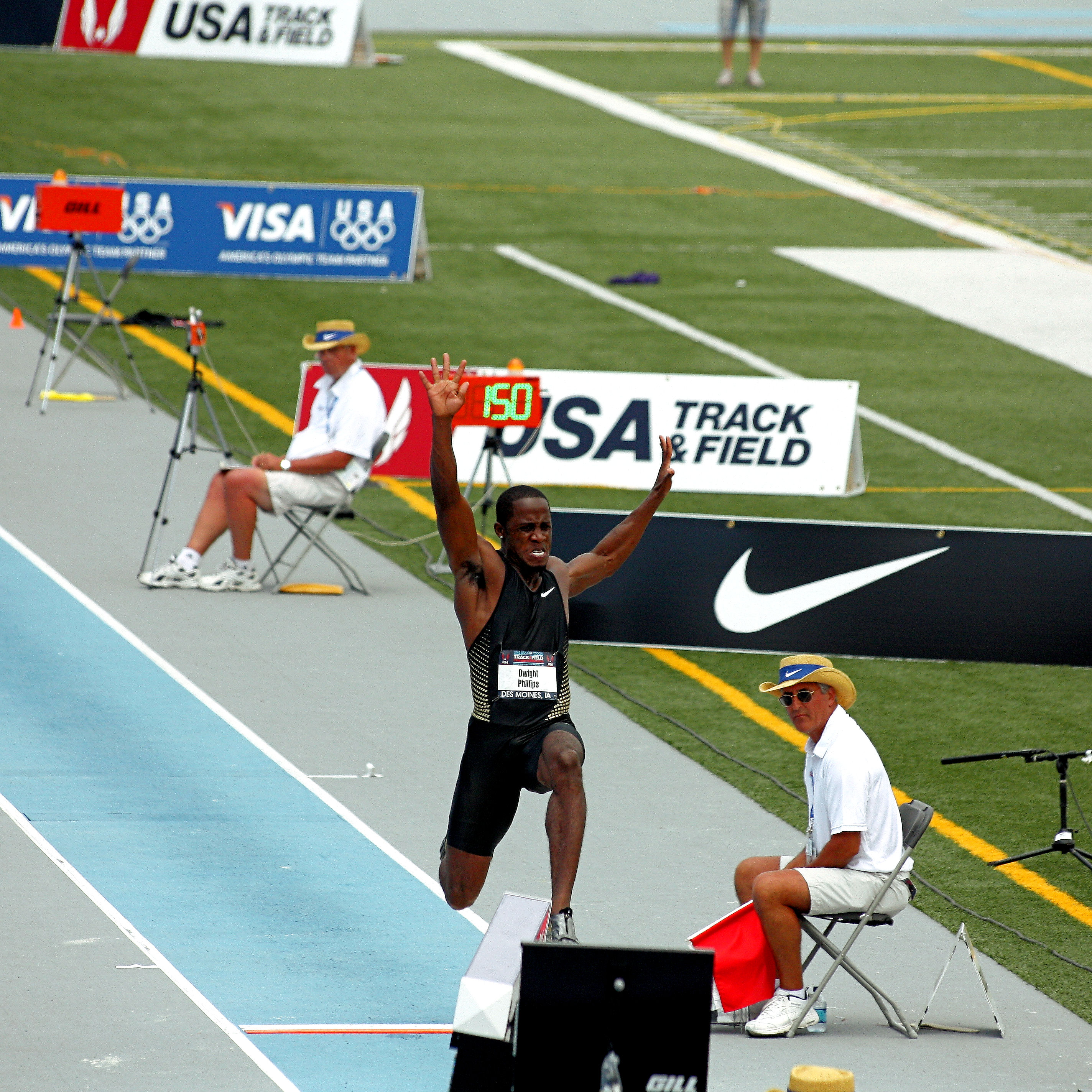 2004 Olympics gold medalist Dwight Phillips on his way to winning the national title in the long jump.